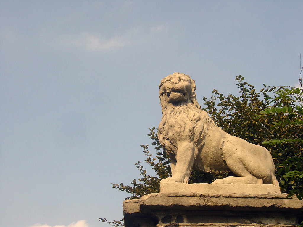 One of the two lions guarding the entry of Via dei Leoni, which brings to the Villa Arconati of Castellazzo di Bollate